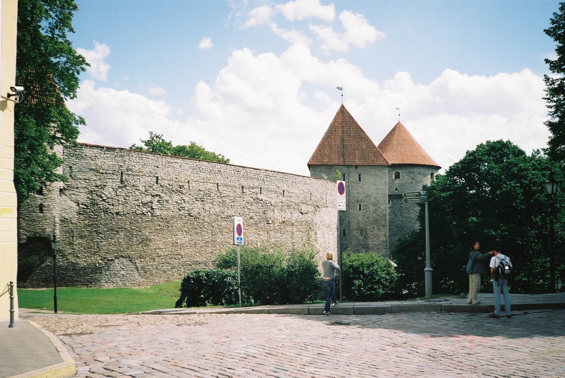 Old town wall in Tallinn